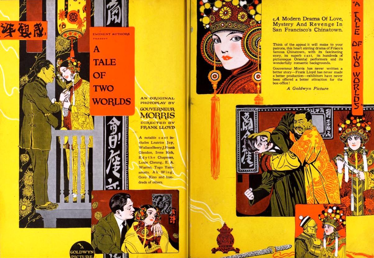 Advertisement for the American drama film A Tale of Two Worlds (1921), from the insert after page 10 of the April 2, 1921 Exhibitors Herald.